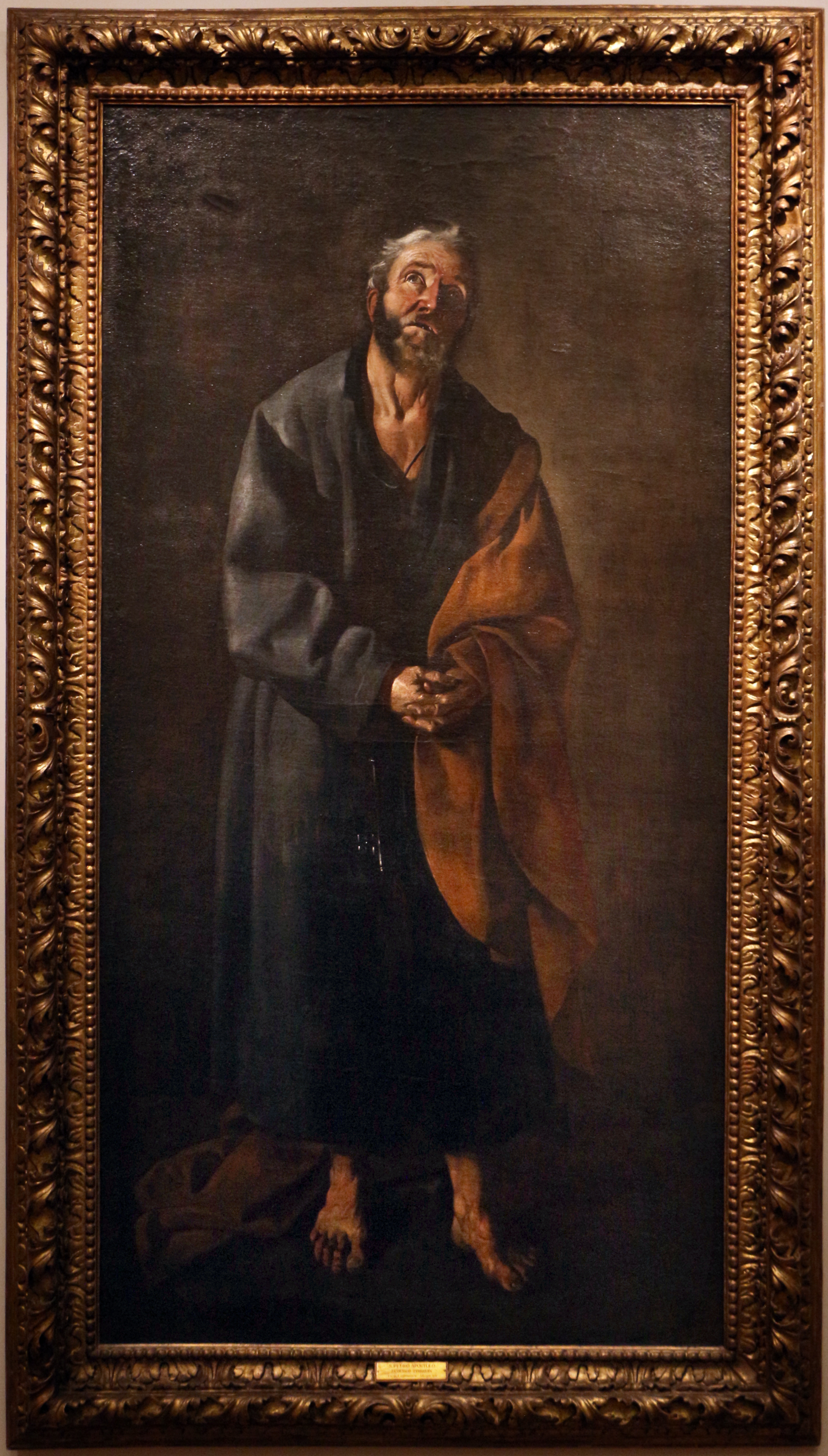 Spanish paintings in the Museu Nacional de Arte Antiga